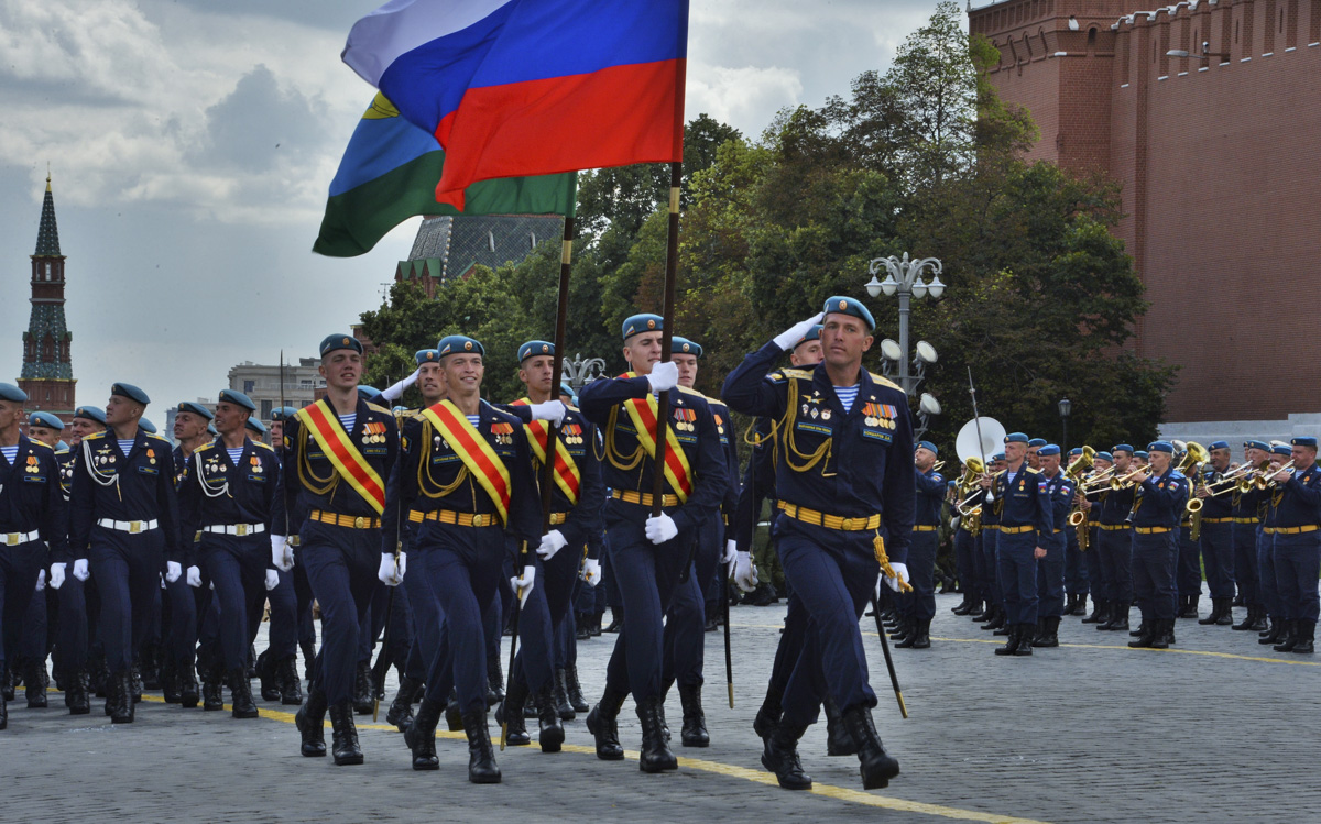 По всей стране прошли праздничные мероприятия, посвященные 90-й годовщине образования Воздушно-десантных войск